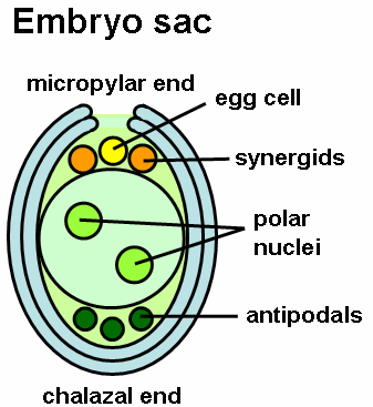 Schematic representation of an Angiosperm ovule with embryo sac: Egg cell (yellow) Synergids (orange) Central cell with two polar nuclei (bright green) Antipodals (dark green)